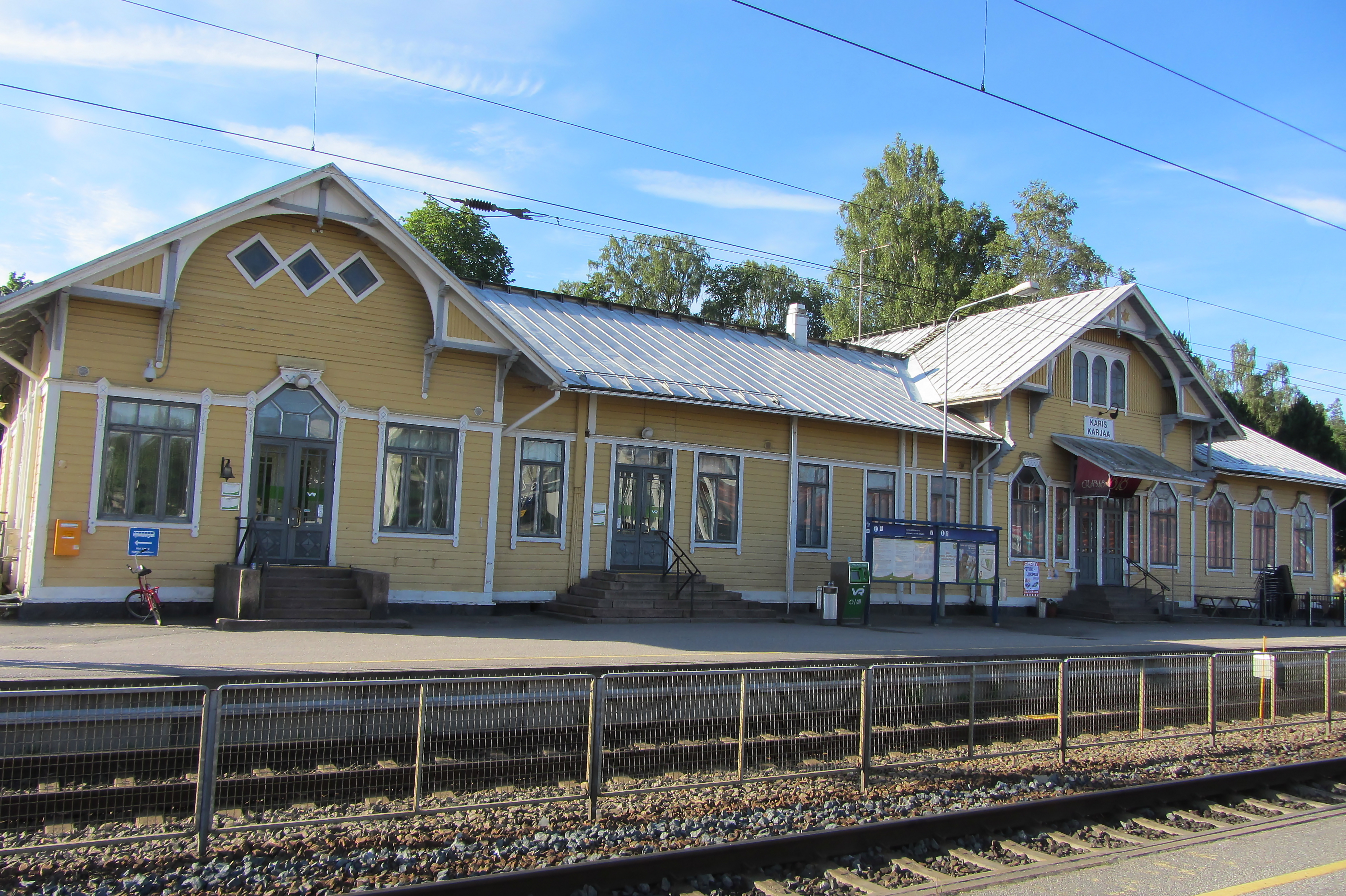 Karjaa Railway Station